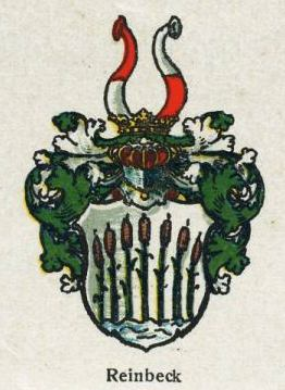 Albrecht Johann von Reinbeck, Nobilitiert 01. März 1765.